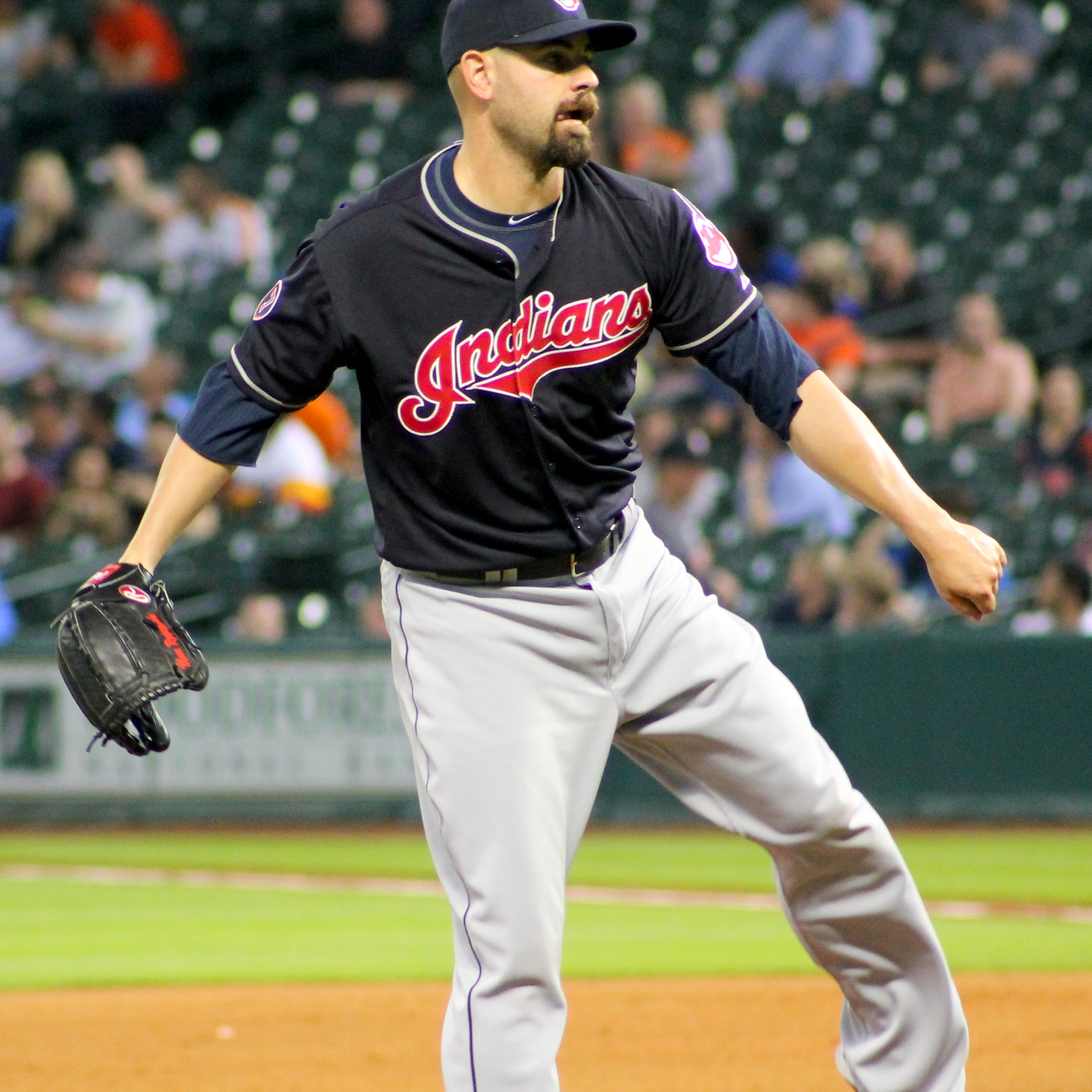 Professional baseball player Marc Rzepczynski at a game in Houston in April 2015.